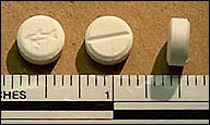 Tablets containing mCPP (meta-chlorophenylpiperazine), seized in Illinois, USA